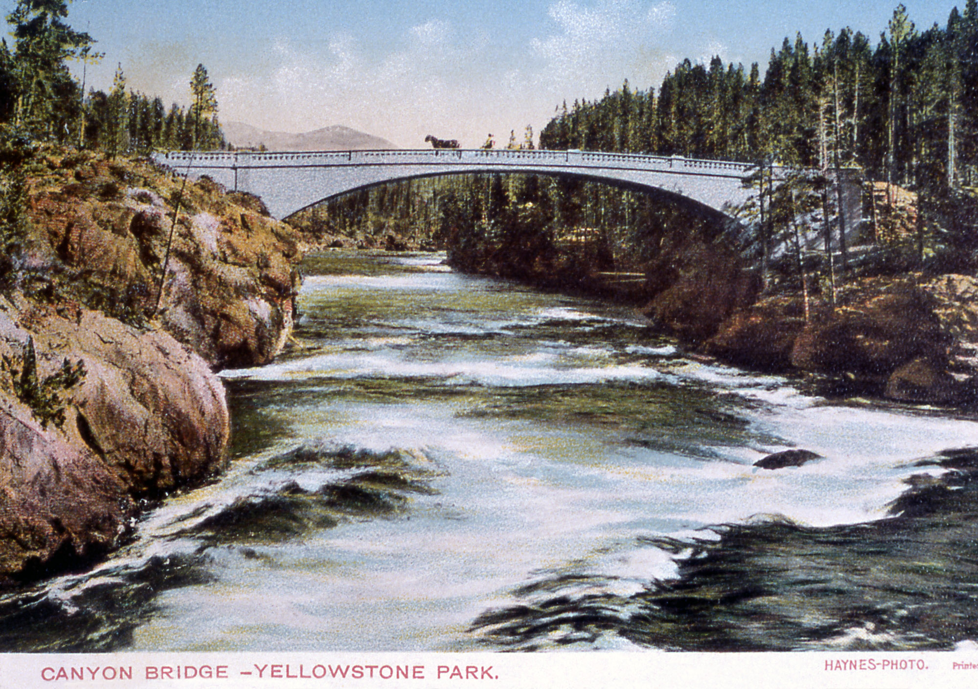 Color postcard of 1903 Chittenden Bridge across Yellowstone River, Yellowstone National Park